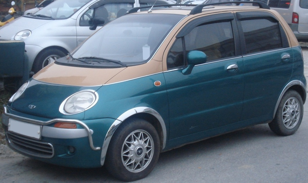 Daewoo Matiz d'ARTS